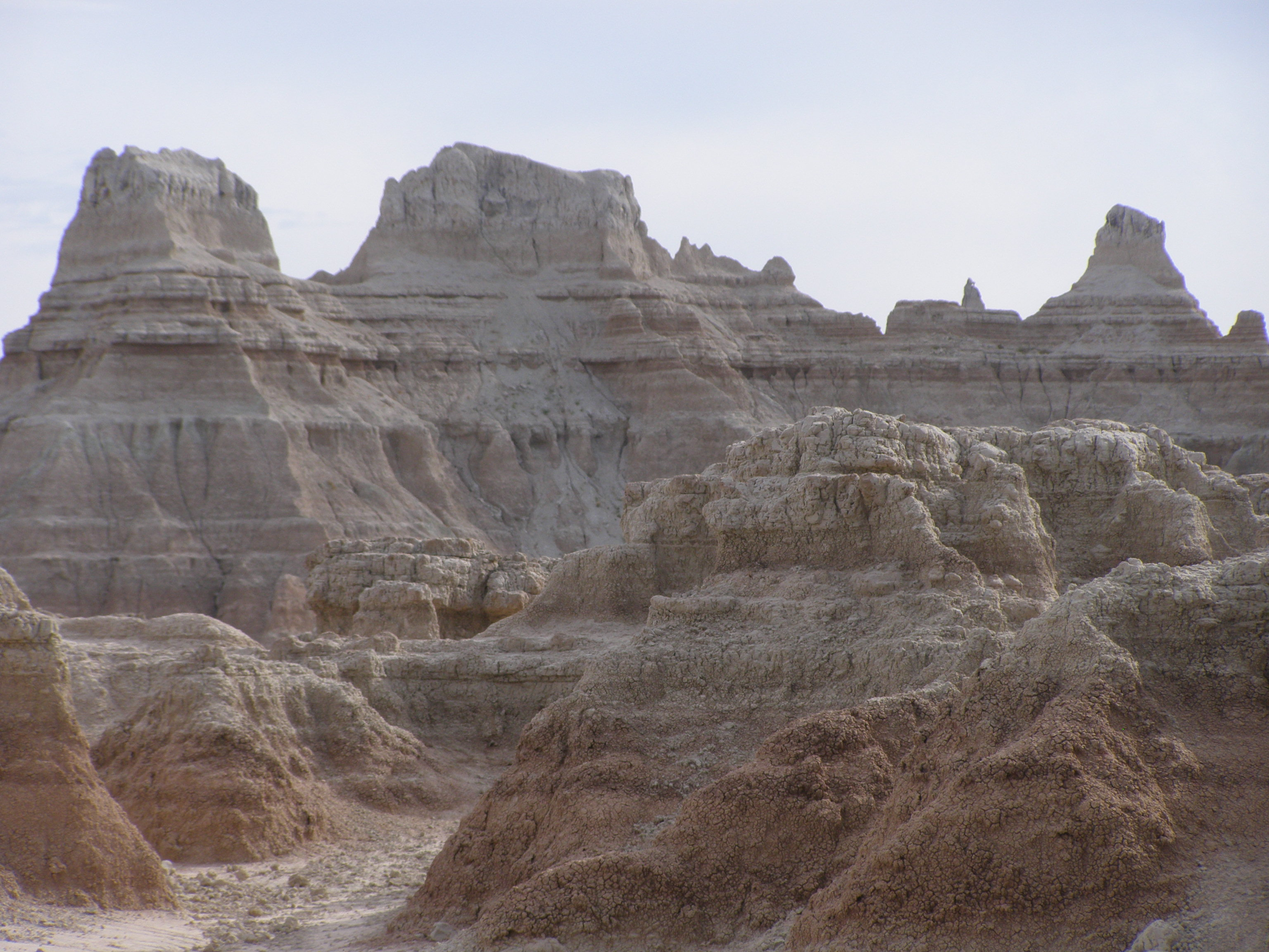 Banded layers of the 'Chadron Formation' is the surface (34-37 MYA) Eocene. Badlands NP